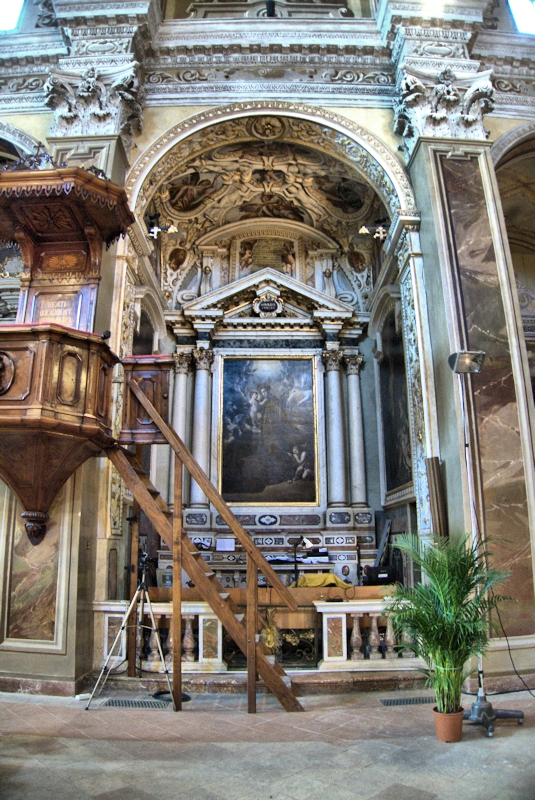 Chapel of St. Anthony of Padua